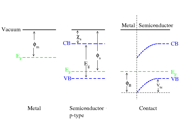 An ohmic contact or Schottky barrier is formed when a metal and a p-type semiconductor are brought into contact. In the ideal case, the magnitude of the band bending and contact resistance depend on the doping of the semiconductor, its dielectric constant and the Schottky barrier where is the work function of the metal and is the bandgap and the electron affinity of the p-type semiconductor. Created by Alison Chaiken using xmgrace.